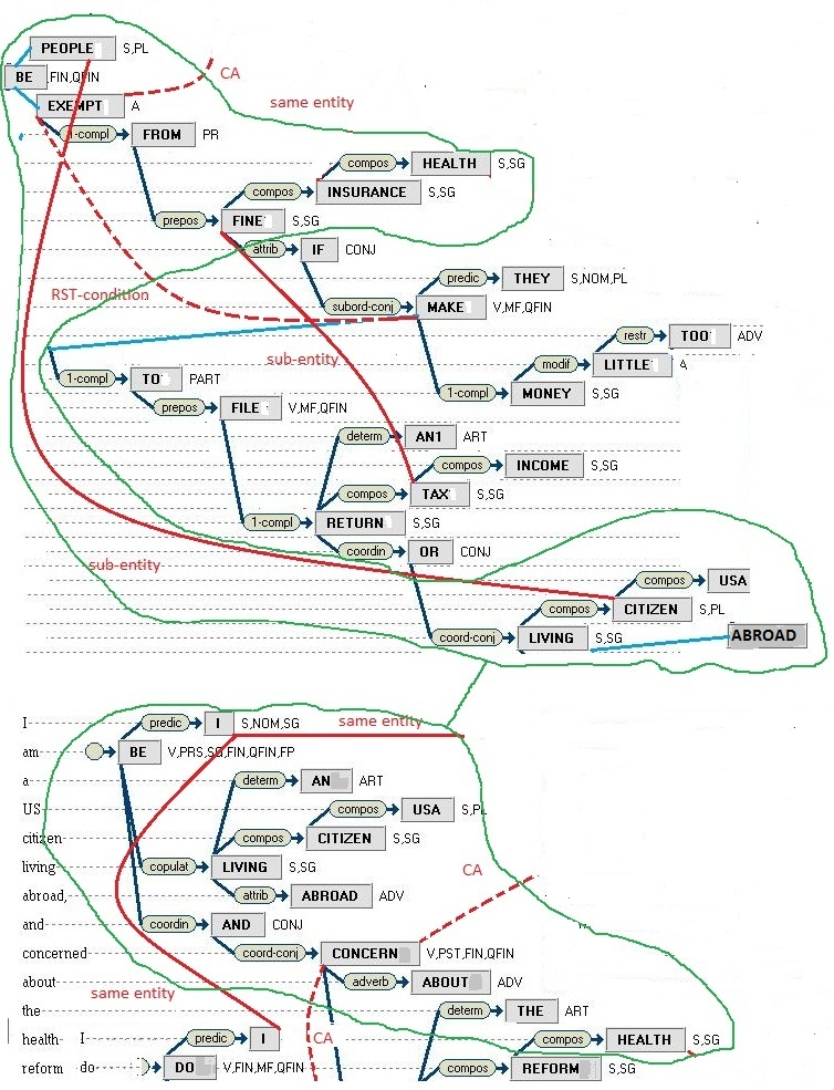 This is showing the result of Matching of parse thicket for answer and question